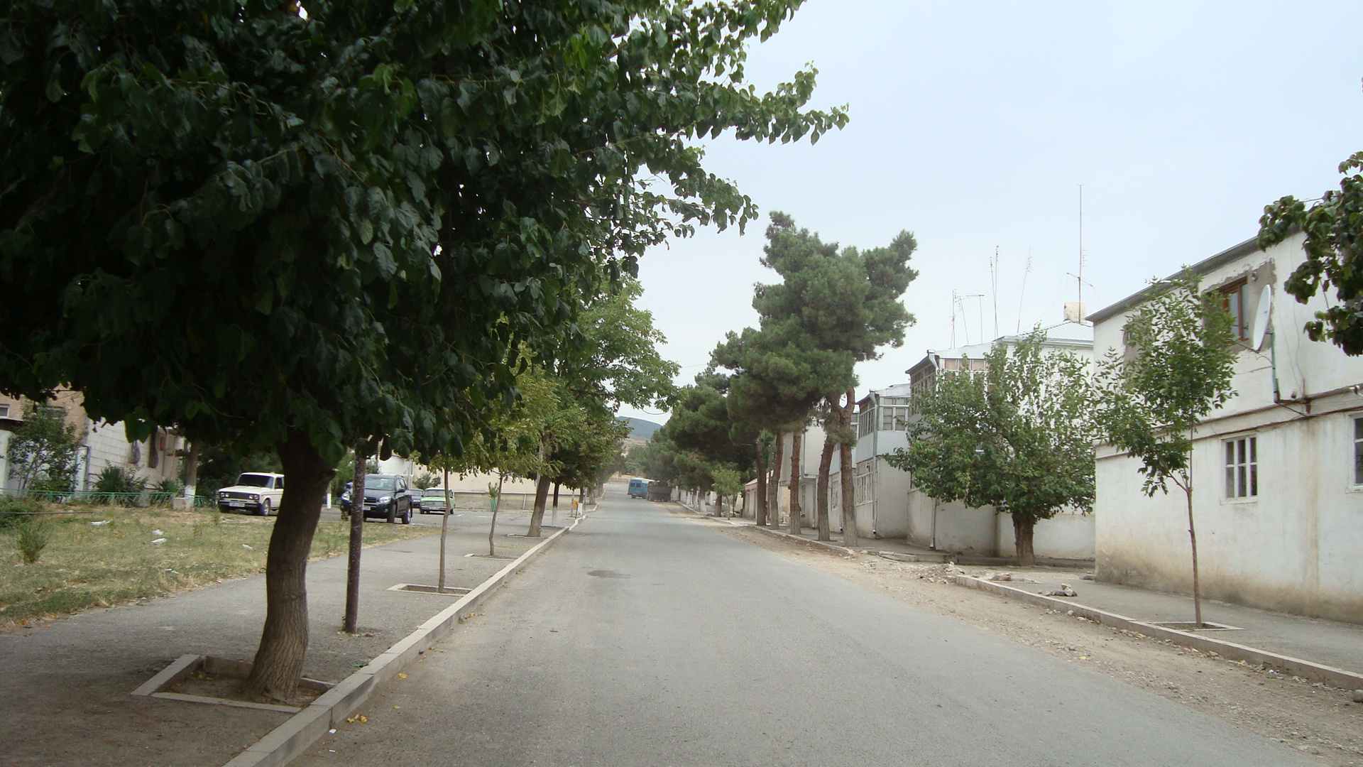 A street. Askeran, Republic of Mountainous Karabakh (Artsakh).